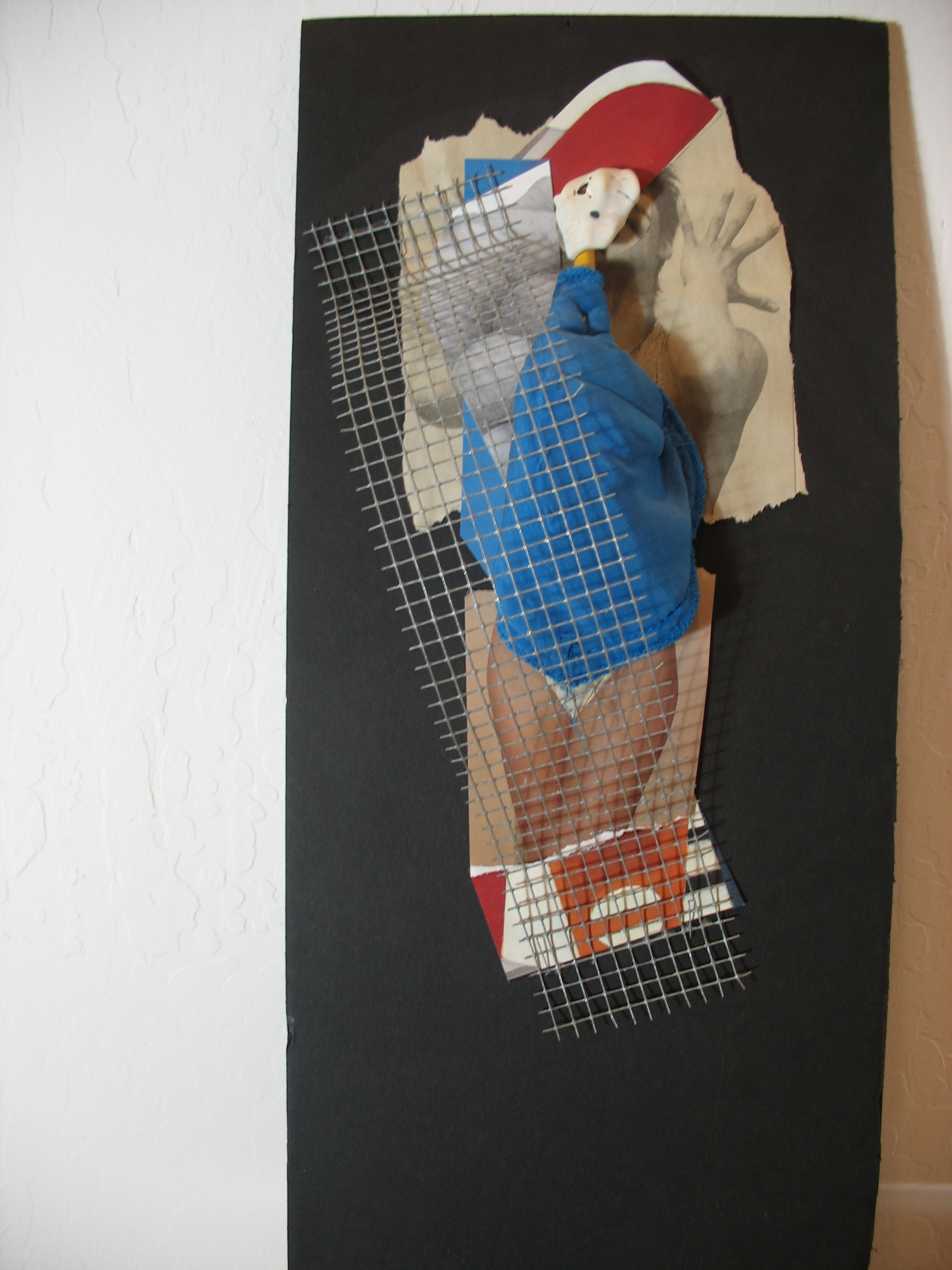 This is a mixed media artwork created by Doren Robbins and used with his permission.